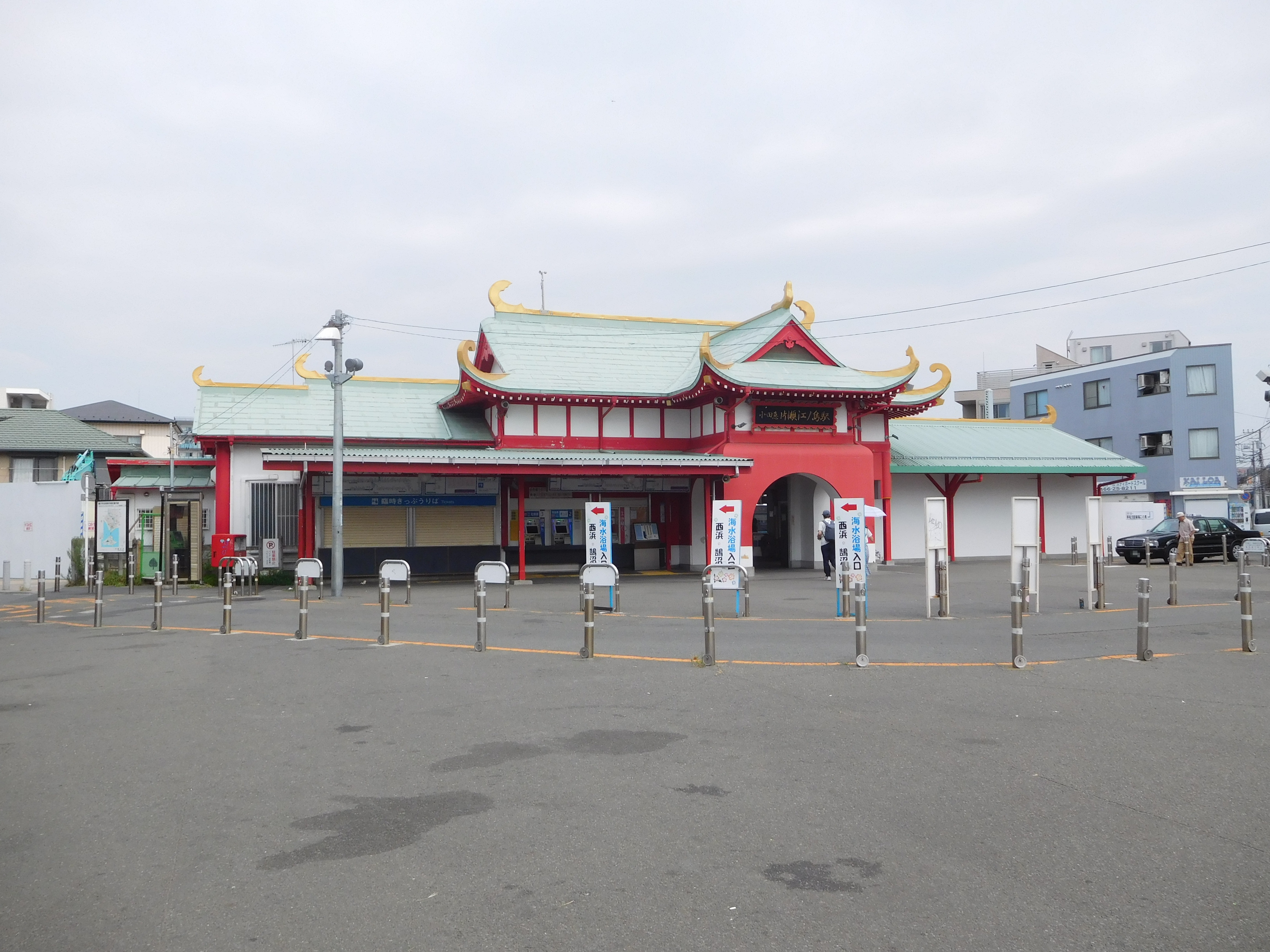 This is Odakyu Enoshima Line Katase-Enoshima station in Fujisawa, Kanagawa, Japan.